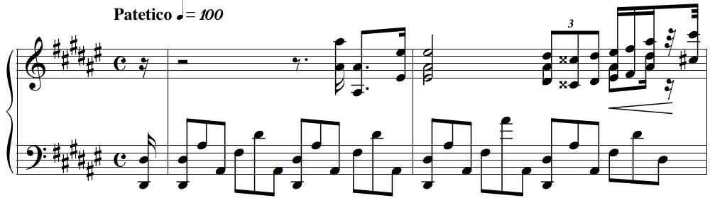 The first two bars of Étude Op. 8 No. 12, by Scriabin.